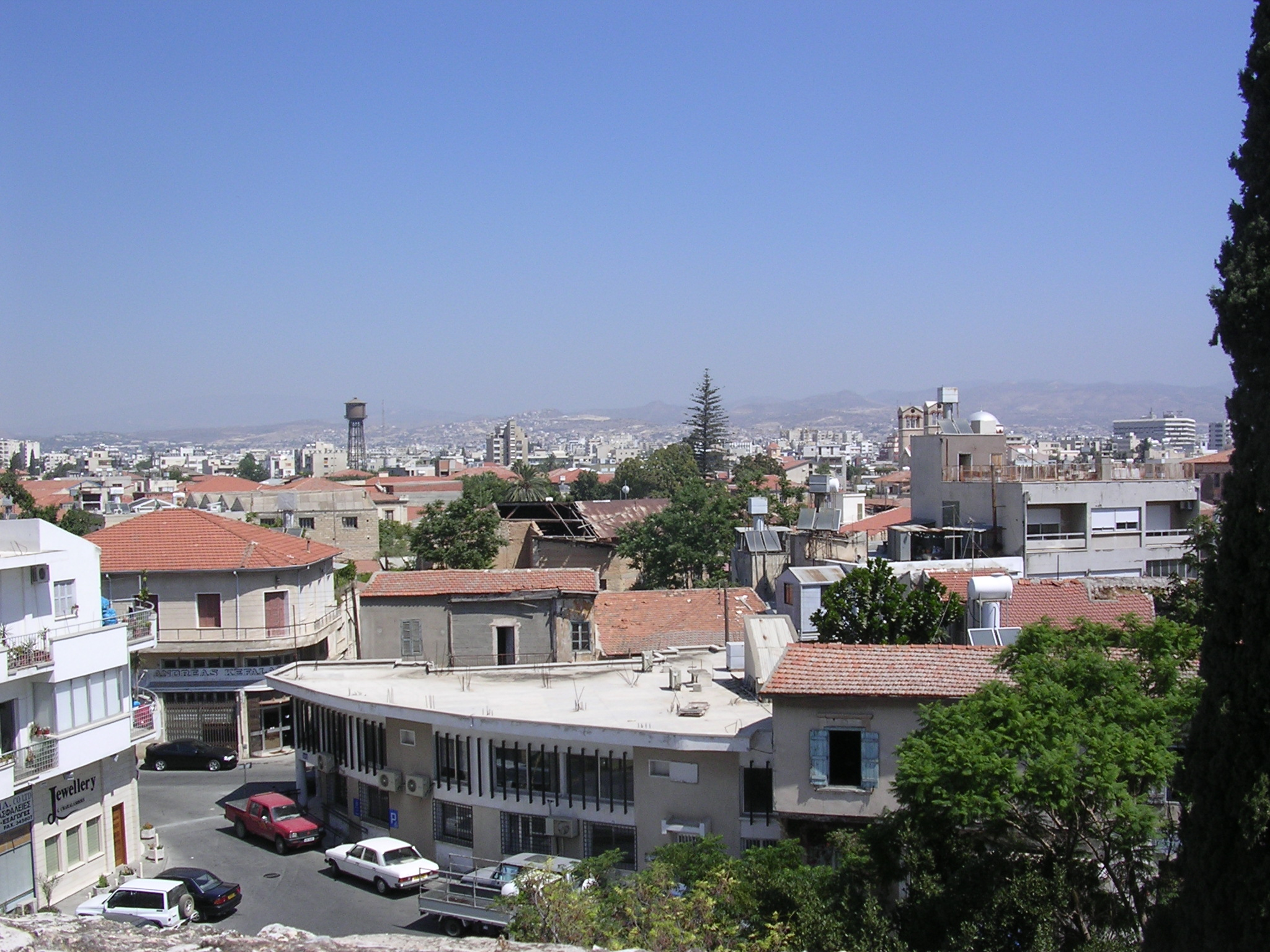 Limassol view from the top of the old medieval castle. I took this picture while on a vacation in Cyprus. cun 12:59, 19 January 2006 (UTC)